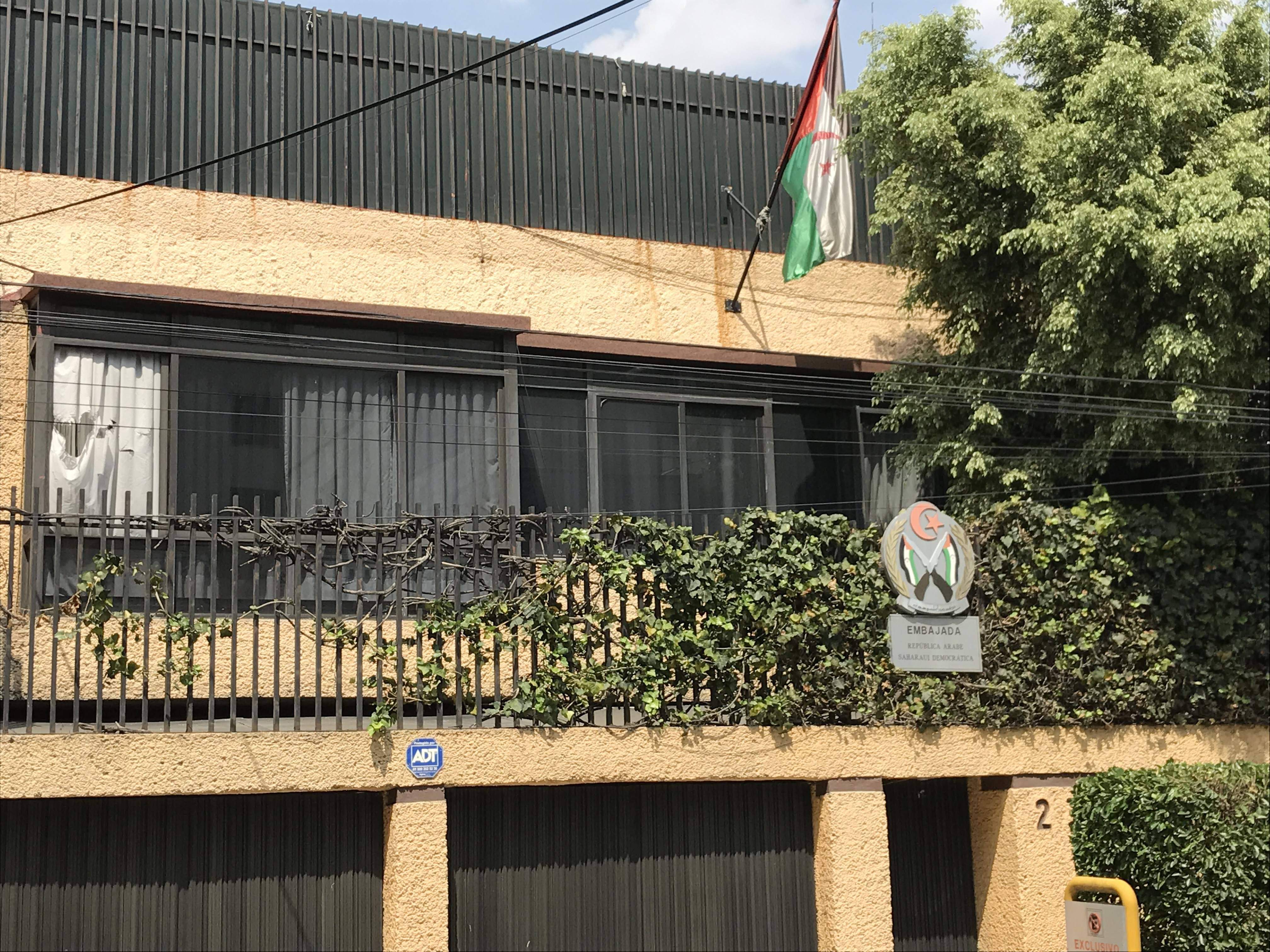 Embassy of the Sahrawi Arab Democratic Republic (SADR) in Mexico City